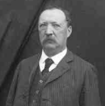 Théodore Decker (1851-1930), French compositor